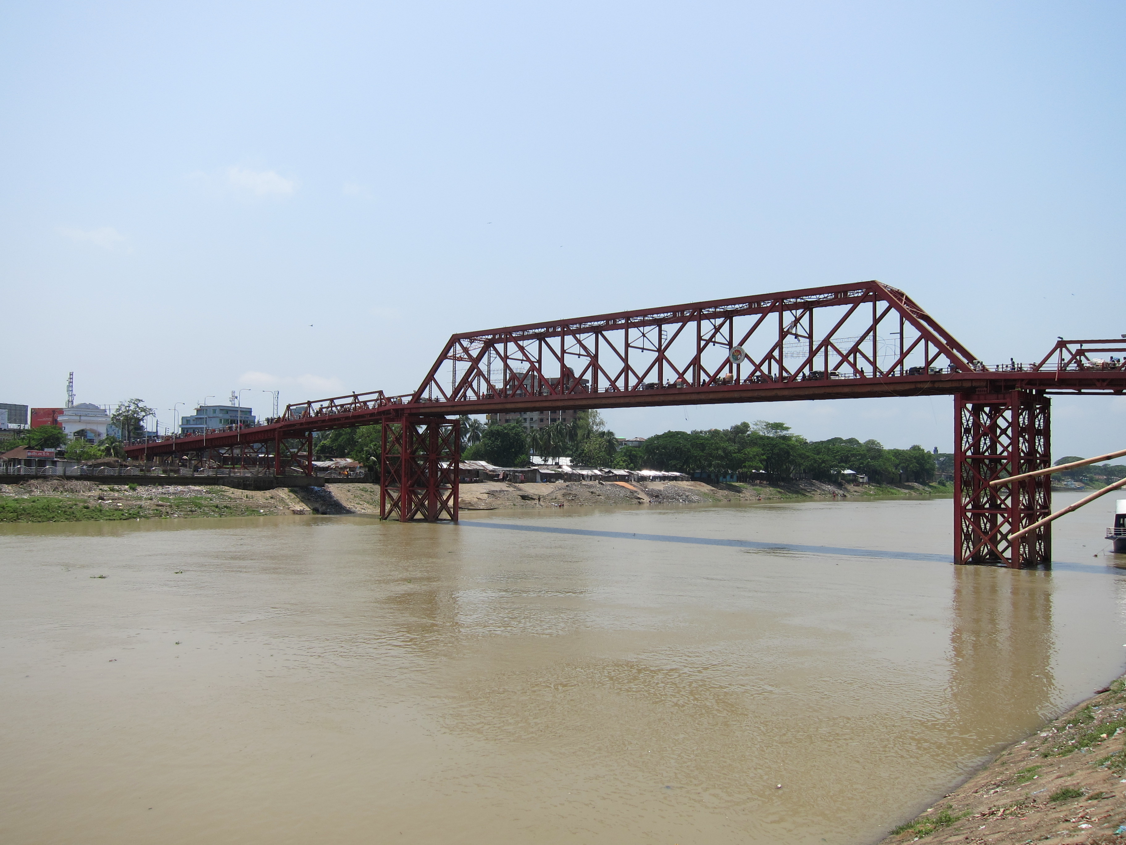 Keane Bridge